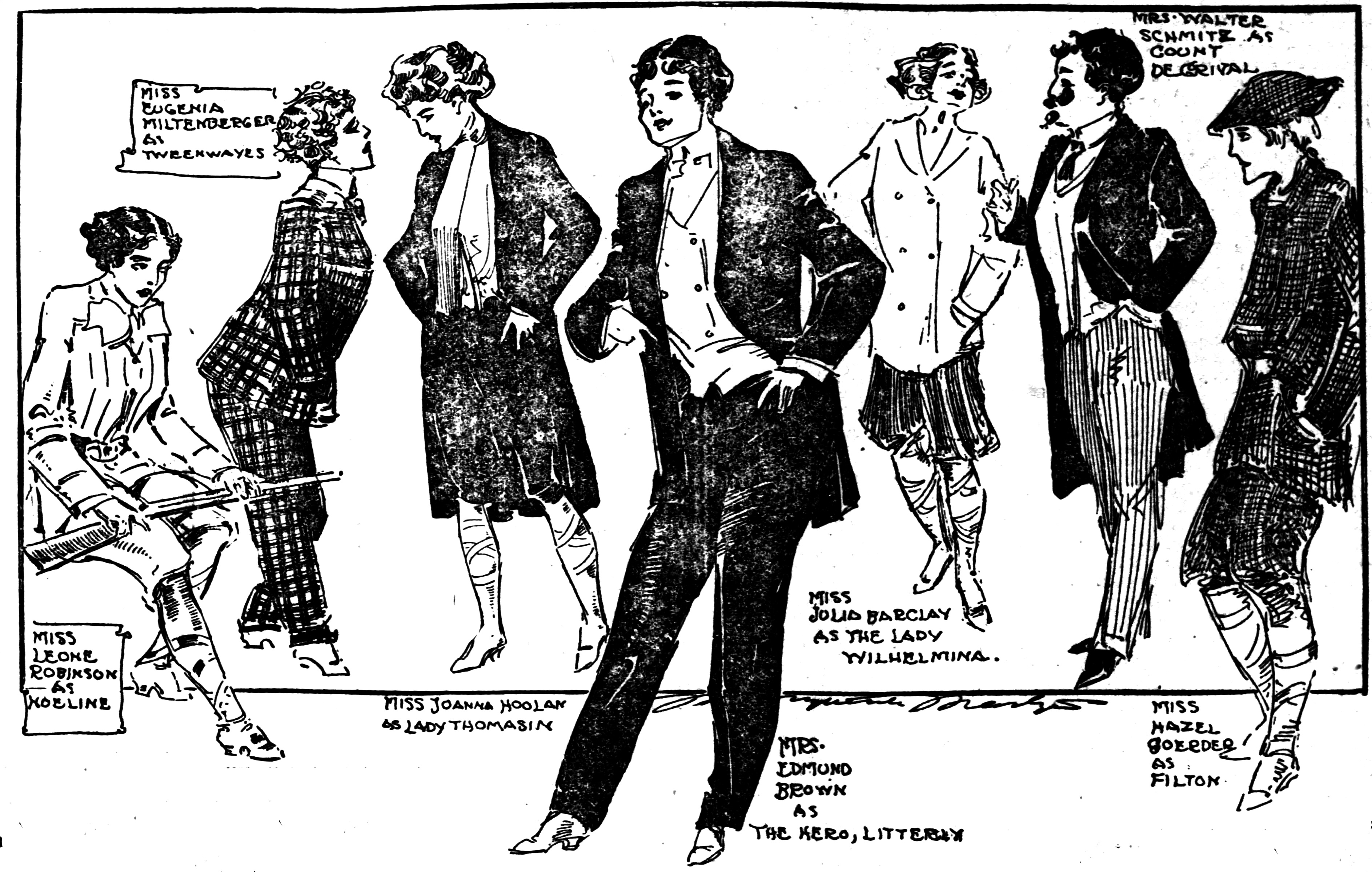 In this sketch by Marguerite Martyn the College Club of St. Louis is in rehearsal for “The Amazons,” a play by Arthur Wing Pinero, in which all the parts are played by women, April 1910. They are Leone Robinson (with rifle), Eugenia Miltenberger (checked suit, Joanna Holan, Mrs. Edmond Brown (center), Julia Barclay (white jacket), Mrs. Walter Schmitz (fake mustache), and Hazel Goerde (far right).